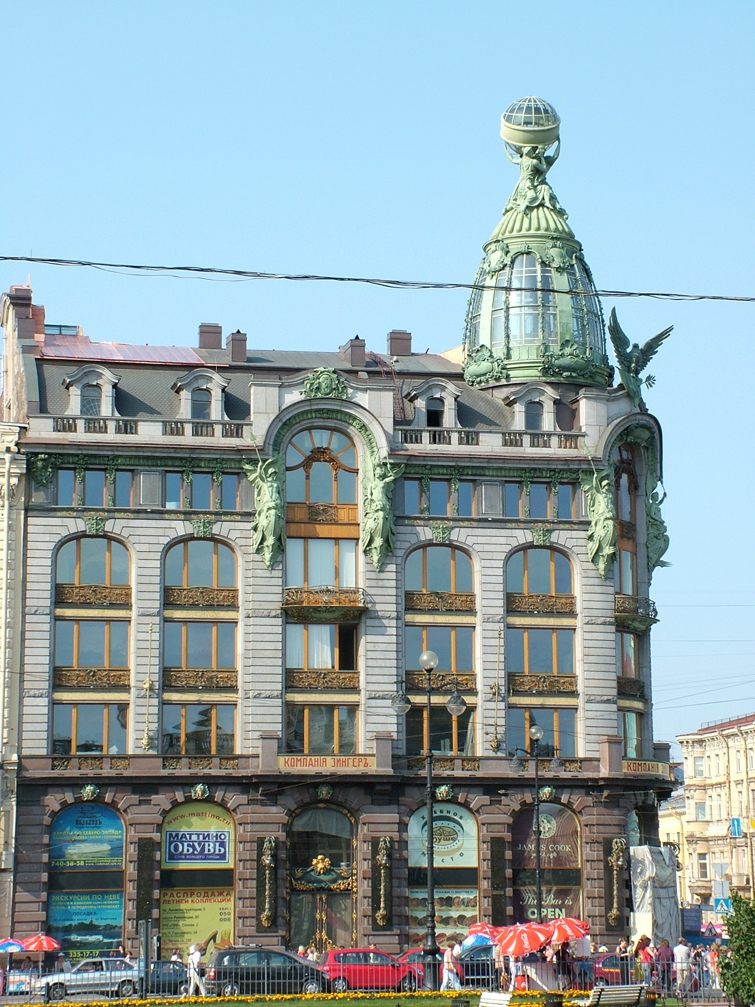 Zinger's house («House of books») in Saint Petersburg, Russia.